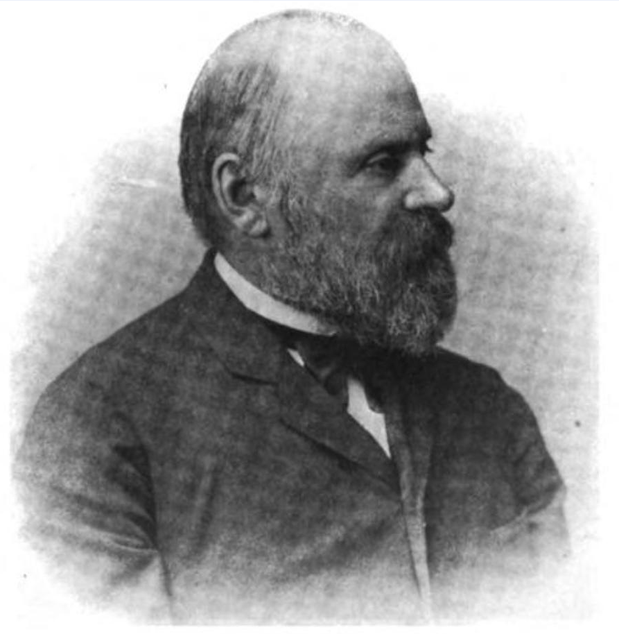 Mily Balakirev (1837–1910), Russian composer, pianist, and conductor. Portrait from the 1900s.